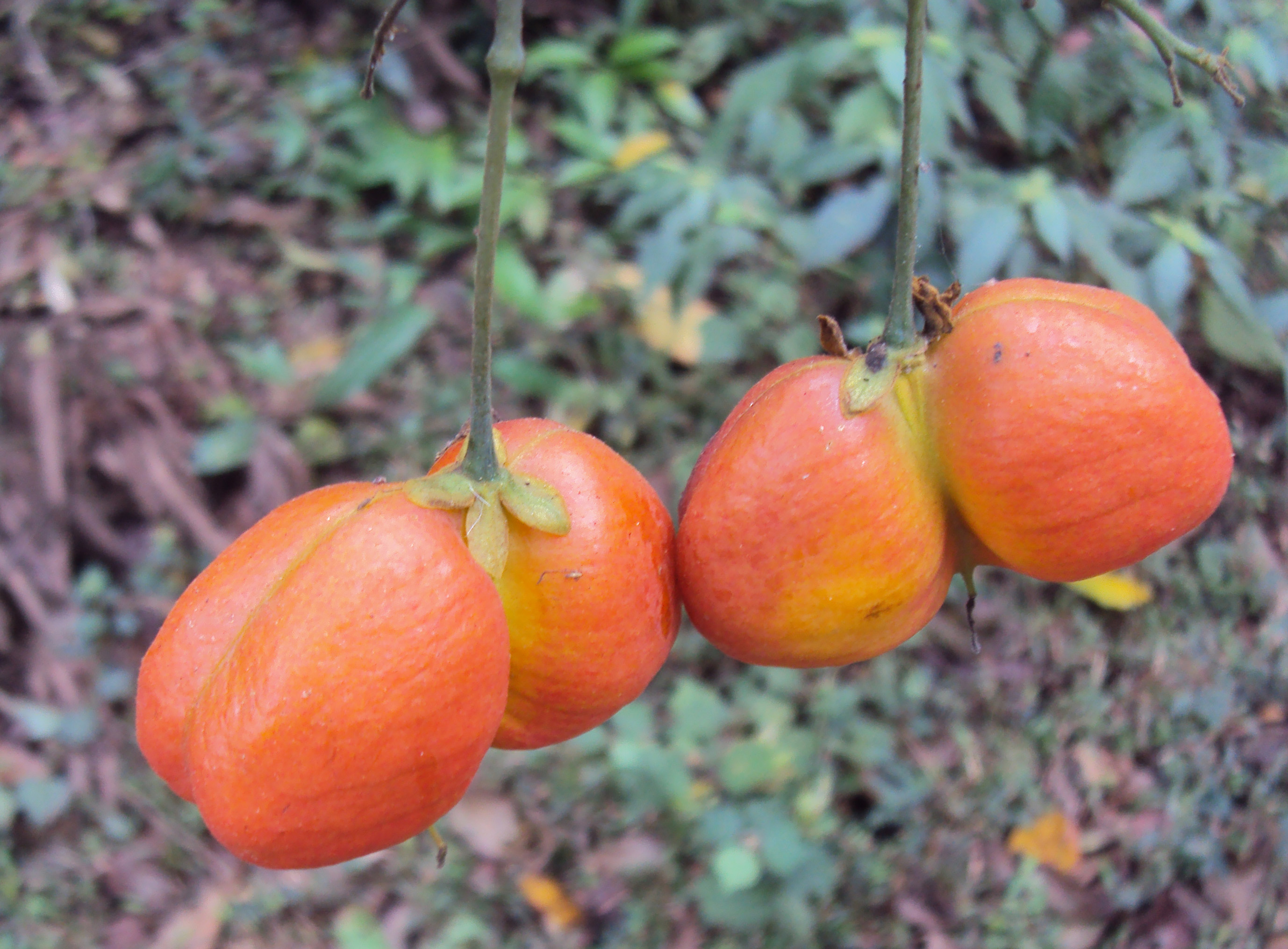 Harpullia arborea